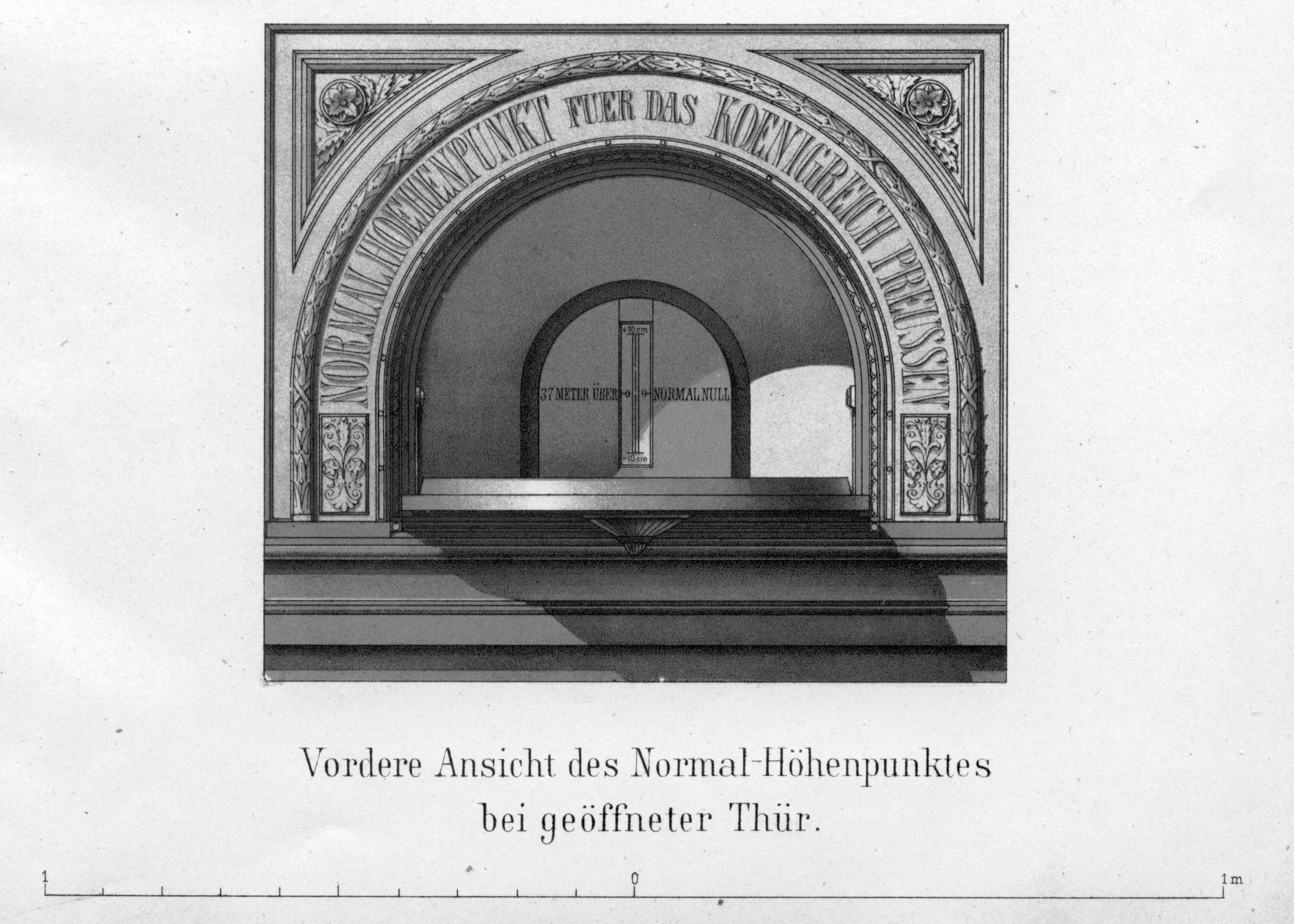 Mean sea level benchmark 1879, front view with open door